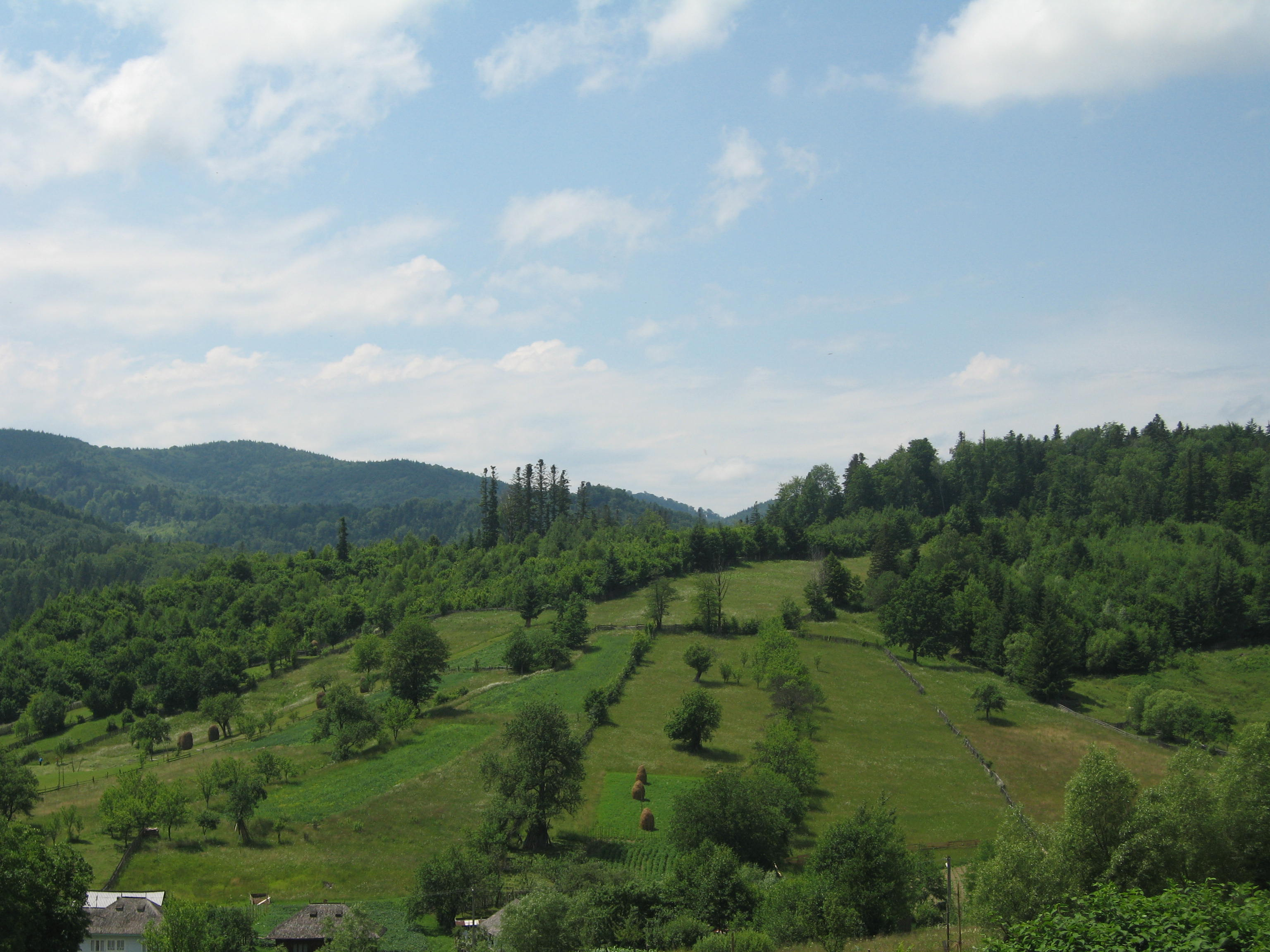 Peisaj din Slătioara, comuna Râșca, județul Suceava